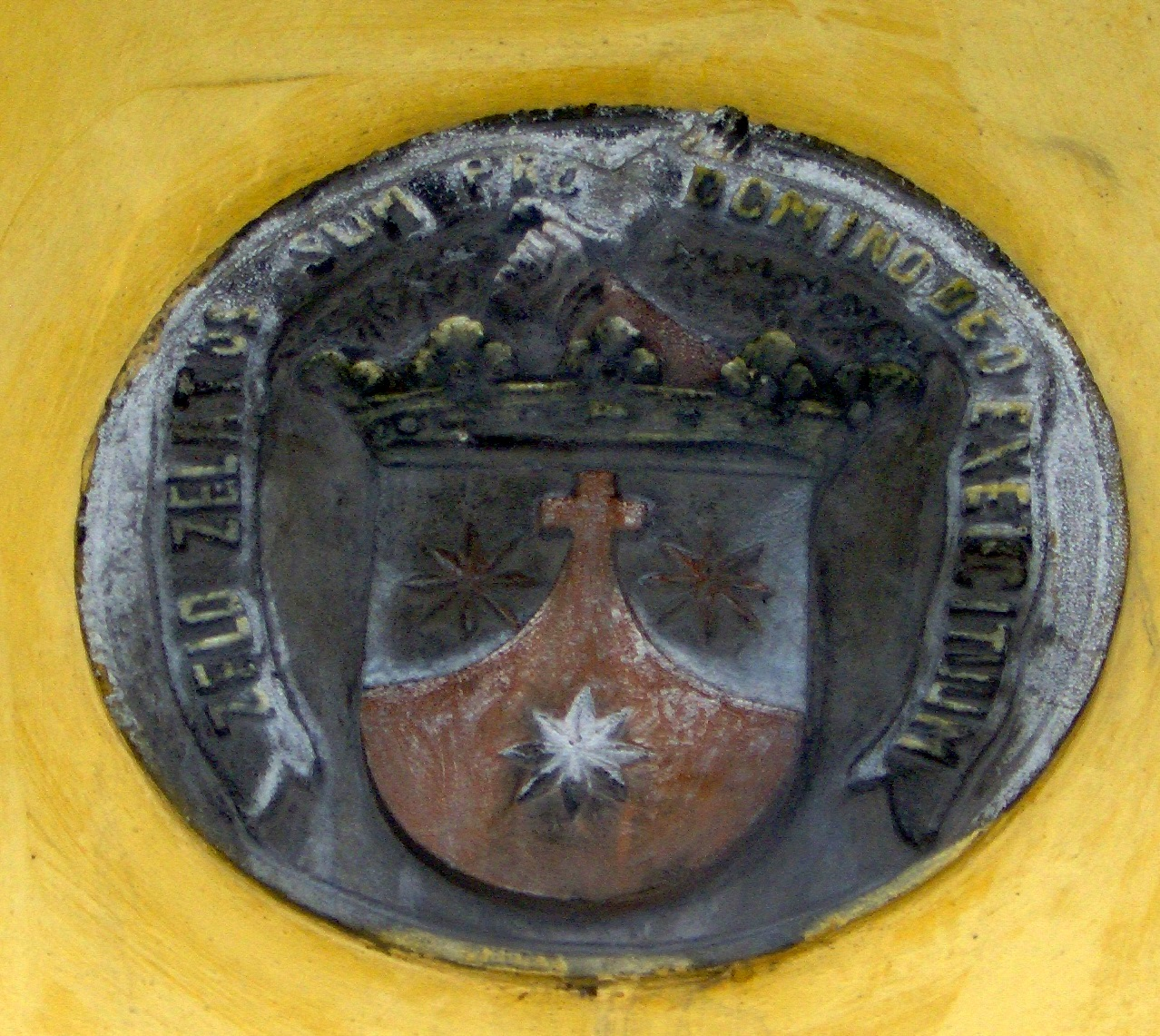 Győr, Carmelitas Monastery, Crest